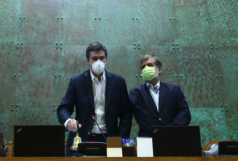 President of the chamber of deputies of Chile Diego Paulsen and First Vice President of the chamber of deputies Francisco Undurraga during the coronavirus pandemic